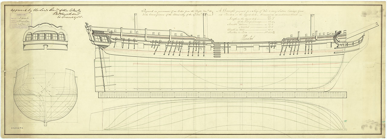 Martin, (1790); Fury (1790); Serpent (1789); Rattlesnake (1791); Hound (1790) Scale: 1:48. Plan showing the body plan, stern board with some decoration detail, sheer lines, and longitudinal half-breadth proposed (and approved) for building Martin, (1790); Fury (1790); Serpent (1789); Rattlesnake (1791); Hound (1790), all 16-gun Sloops. Signed by John Henslow [Surveyor of the Navy, 1784-1806]. MARTIN 1790